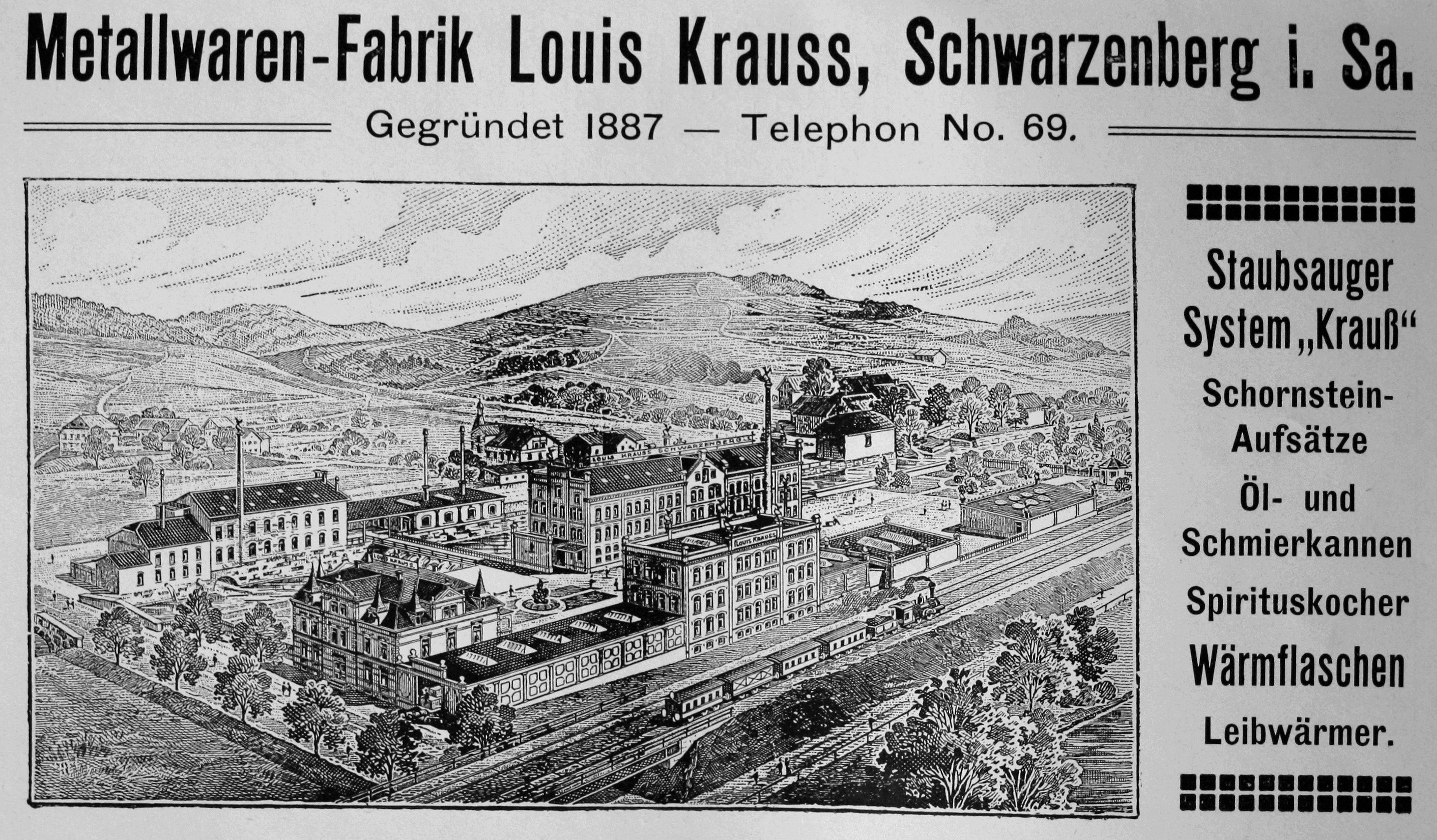 Louis Krauss Metalware Factory Schwarzenberg, ca. 1910.